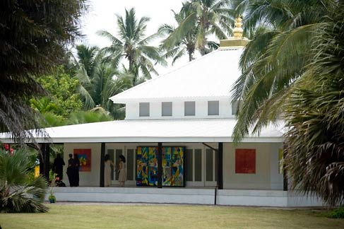 Photograph of temple at Adi Da Samrajashram. Permissions emailed to commons from copyright holder at Dawn Horse Press.